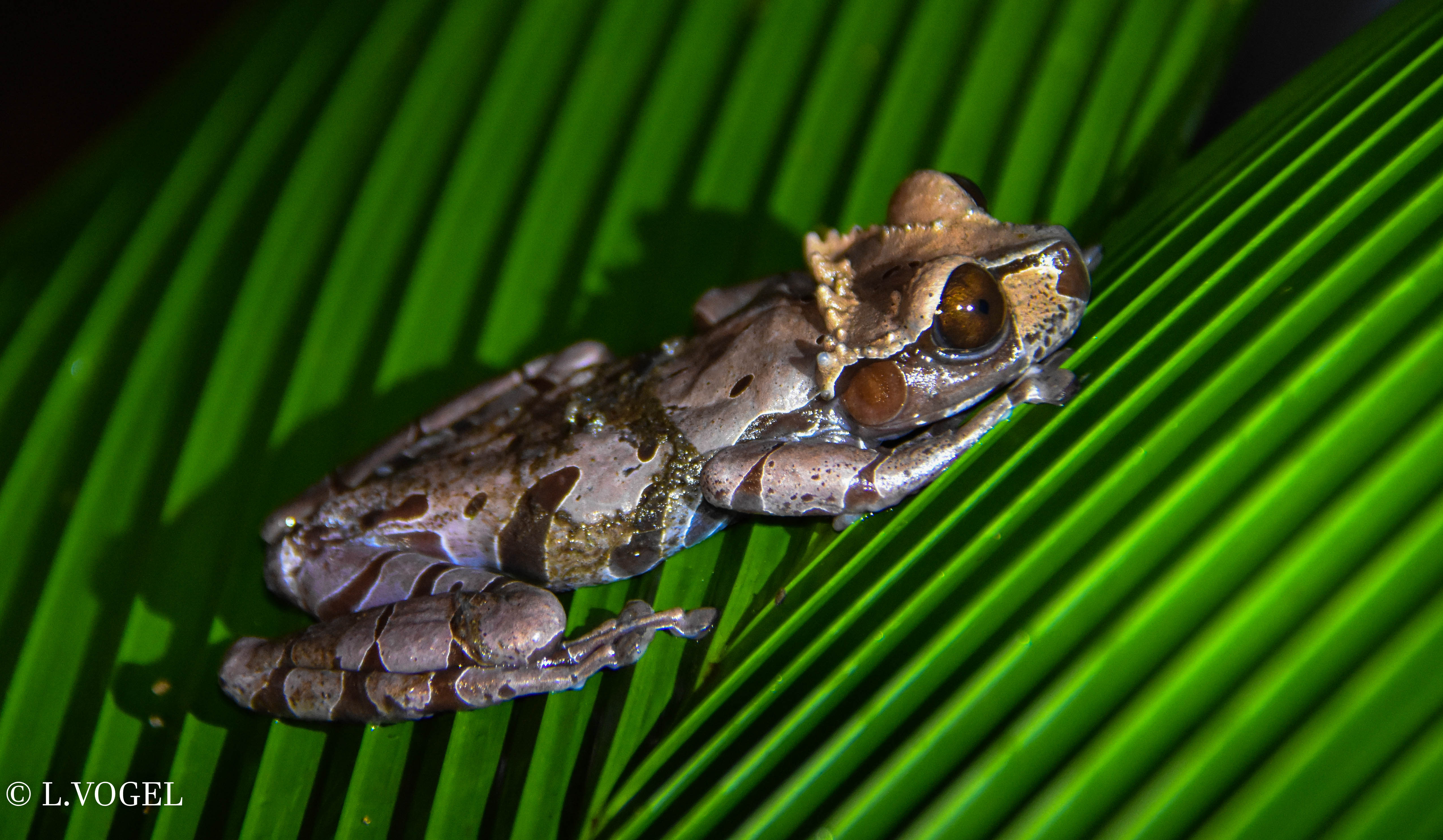 Anotheca spinosa observed in the Braulio Carrillo National Park